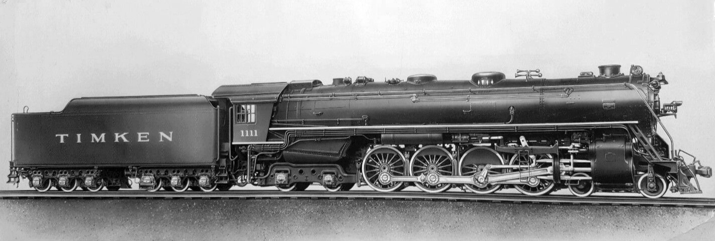 Spec card for Timken 1111, a 4-8-4 locomotive built by American Locomotive Company for the Timken Roller Bearing Company. The company intended to use the locomotive as a demonstration unit for its bearings. There are no copyright marks on the card, which was issued by ALCO when the locomotive was built in 1929. Locomotive builders issued a card like this for each locomotive built by the respective company. Other ALCO builders' portraits are here.